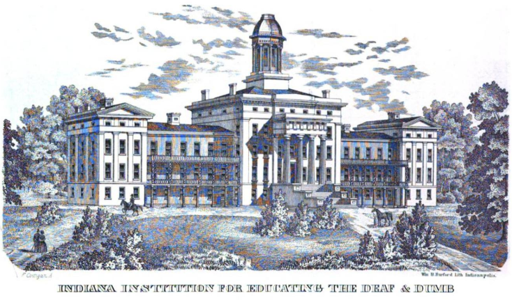 Illustration of the Indiana Institution for the Education of the Deaf from the Legislative and State Manual of Indiana, 1903, page 328